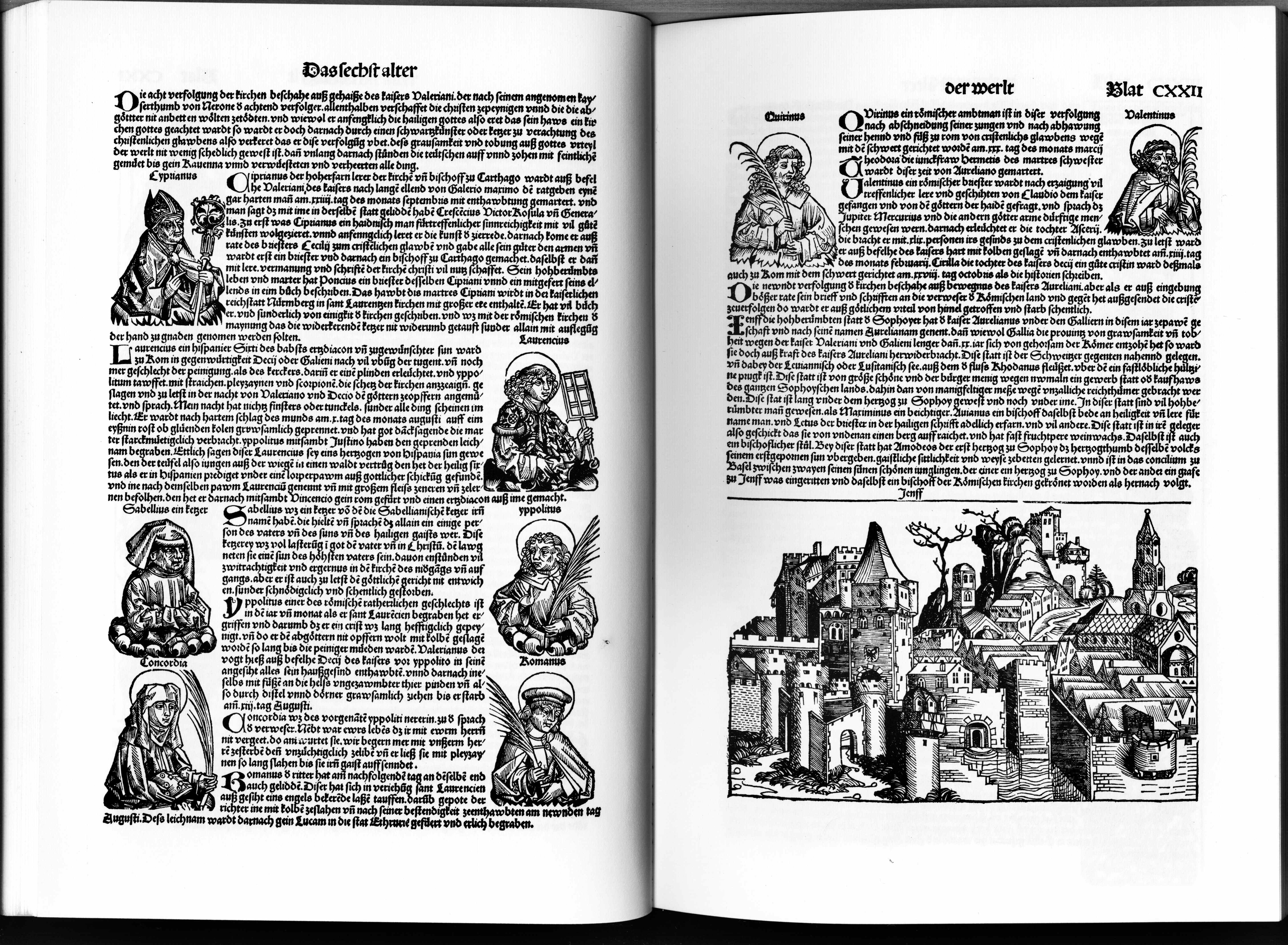 This is a scan of the historical document